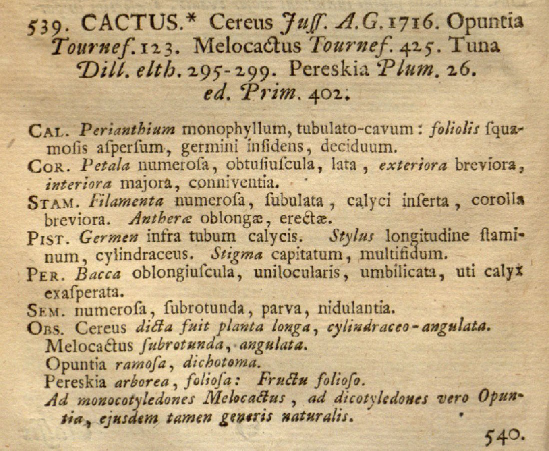 Genus Cactus in Genera Plantarum (5th edition)